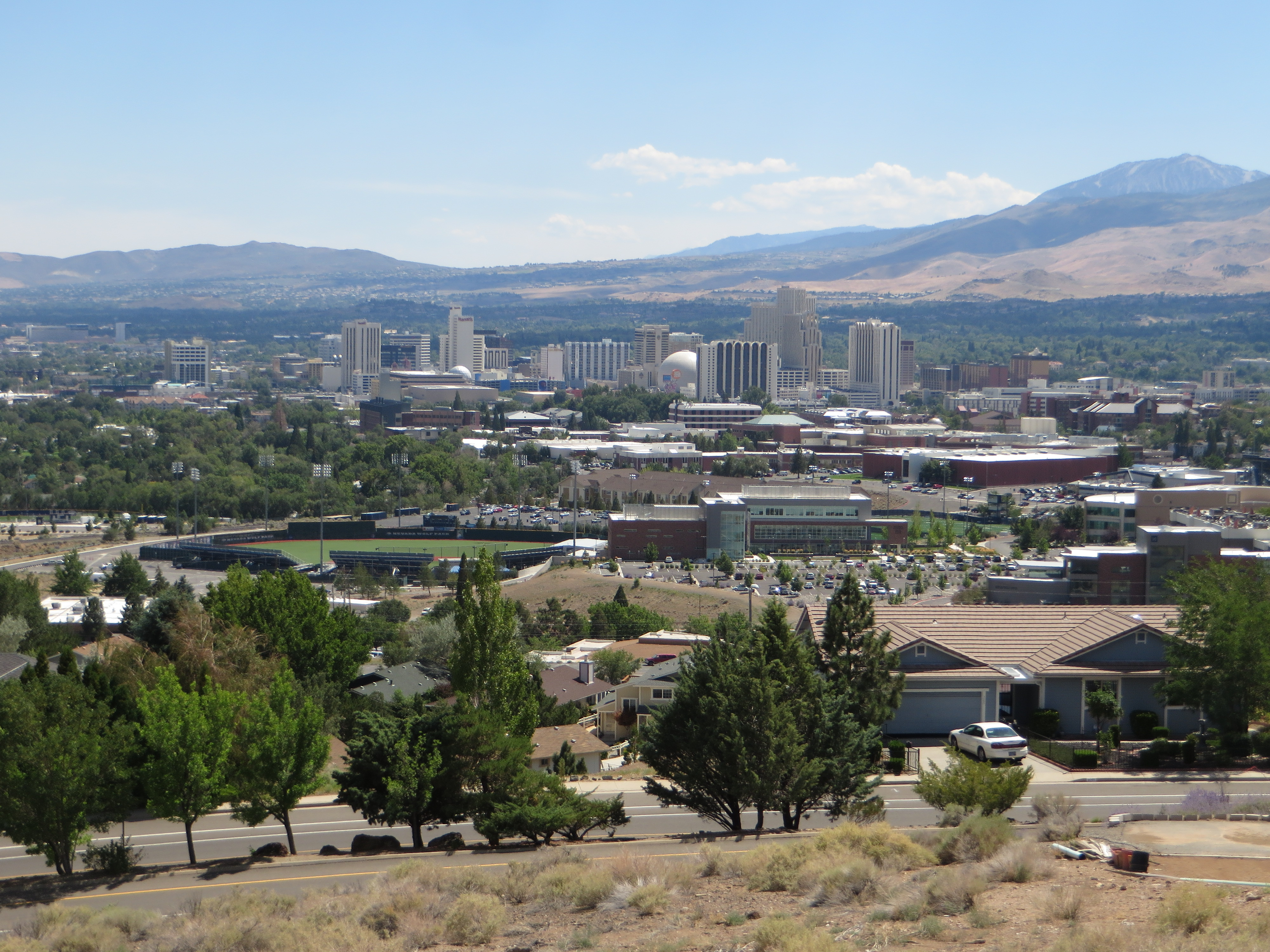 Reno is a city in the US state of Nevada. Known as "The Biggest Little City in the World", Reno is famous for its casinos and as the birthplace of Caesars Entertainment Corporation. The city is situated in the northwestern part of the state and is the county seat of Washoe County. Reno is the most populous Nevada city outside of the Las Vegas metropolitan area. As of the 2010 census, the city had a population of 225,221 making it the fourth most populous city in the state after Las Vegas, Henderson, and North Las Vegas. The city sits in a high desert at the foot of the Sierra Nevada and its downtown area (along with Sparks) occupies a valley informally known as the Truckee Meadows. Reno is part of the Reno–Sparks metropolitan area which consists of all of both Washoe and Storey counties and has a 2013 estimated population of 437,673. making it the second largest metropolitan area in Nevada.